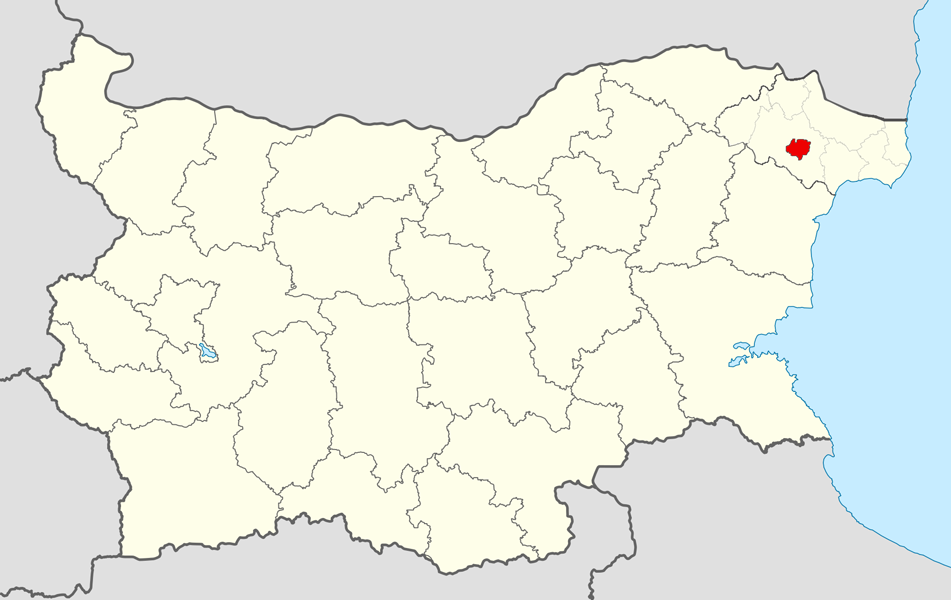 Location map of Dobrich Municipality within Bulgaria and Dobrich Province. Equirectangular projection, N/S stretching 130 %. Geographic limits of the map: N: 44.4° N S: 41.1° N W: 22.1° E E: 28.9° E